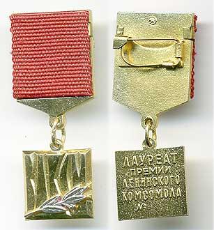 Soviet Badge Premiya Leninskogo Komsomola.jpg